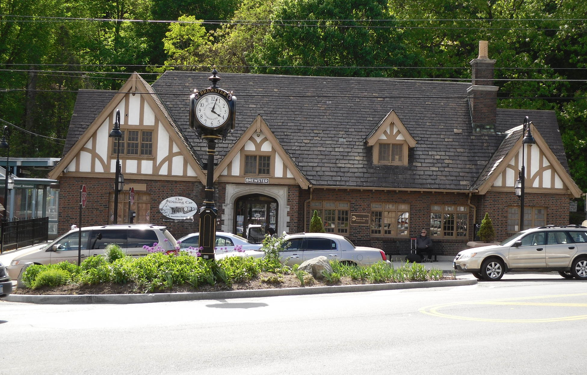 The Metro-North station in Brewster, New York, viewed from US 6.